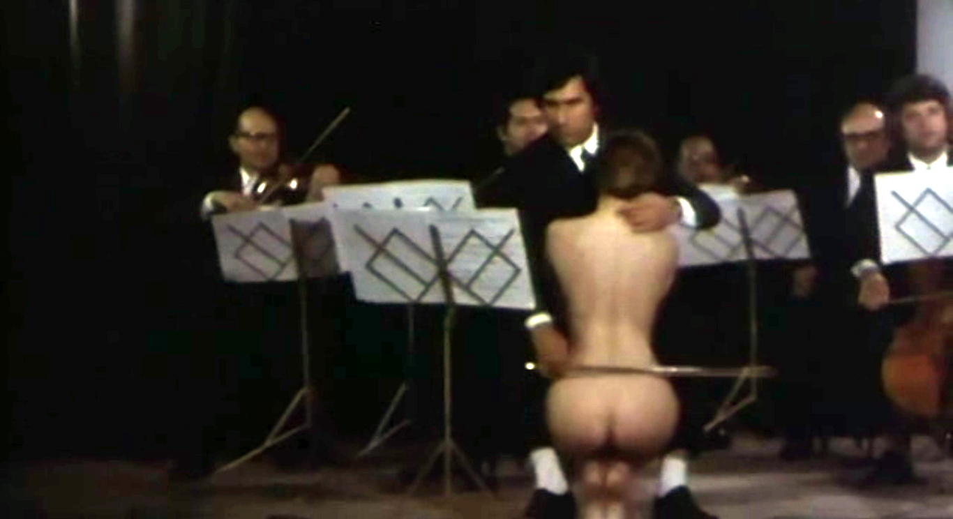 Il Merlo maschio ("The Naked Cello" (UK) or "Secret Fantasy"(US) by Pasquale Festa Campanile starring Laura Antonelli and Lindo Buzzanca Аҧсшәа: Laura Antonelli e Lando Buzzanca nel film Il Merlo maschio di Pasquale Festa Campanile